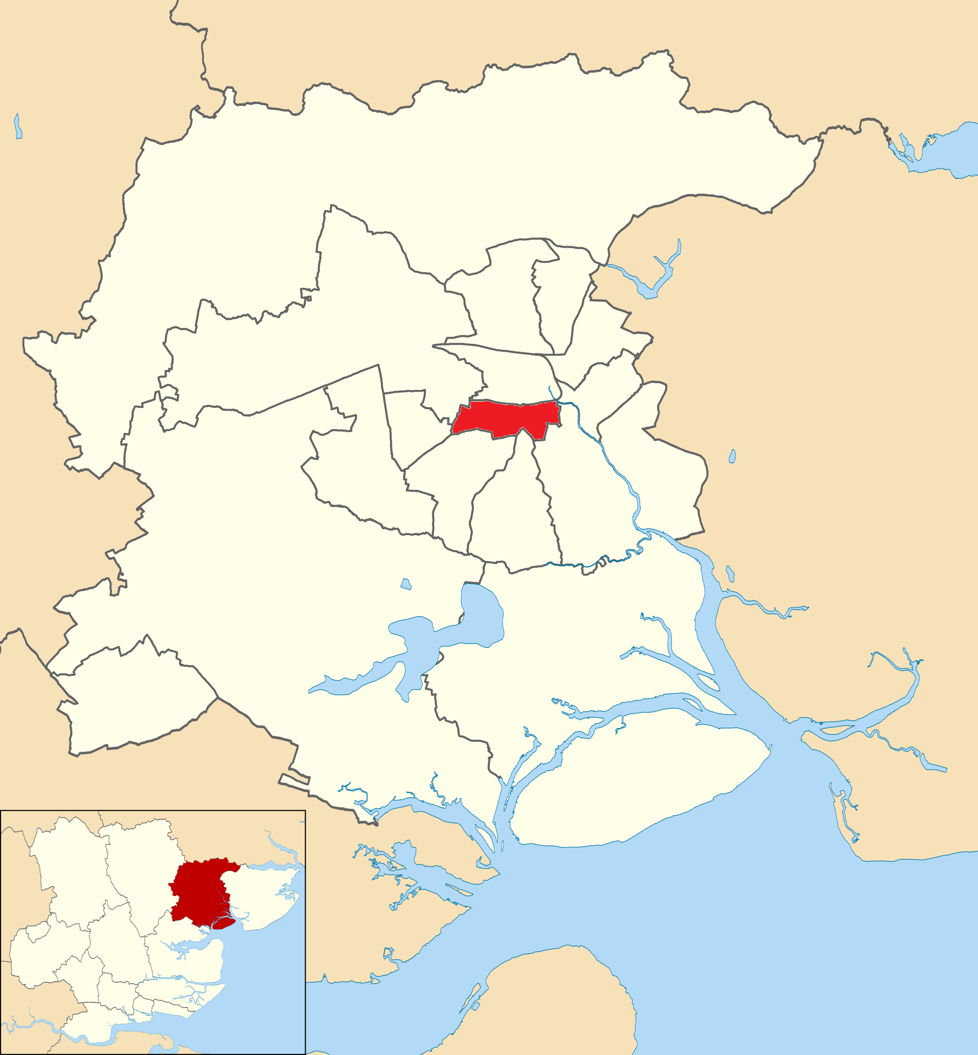 New Town & Christ Church ward highlighted within Colchester Borough